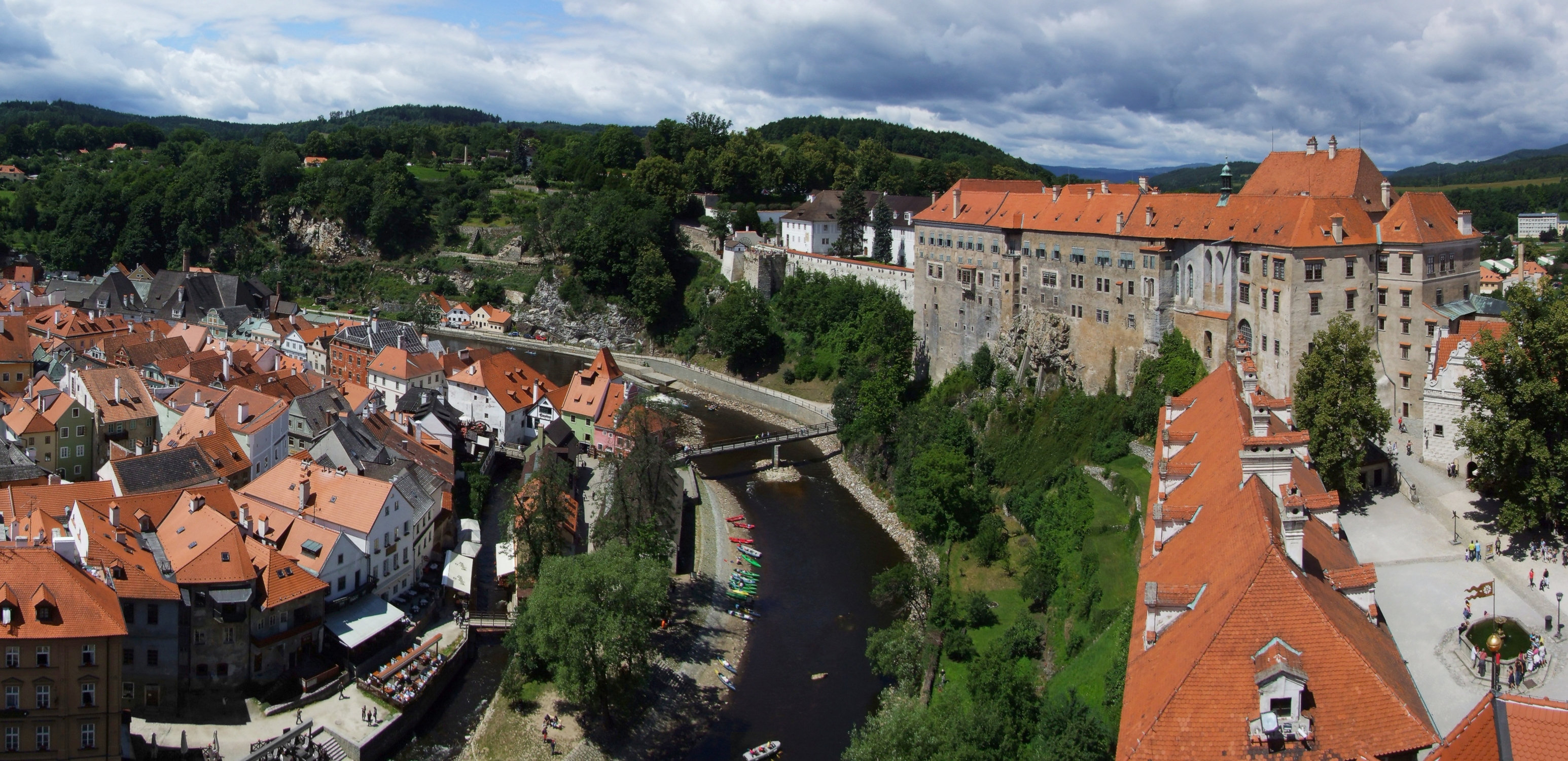 Český Krumlov (Krummau) - panorama from castle tower